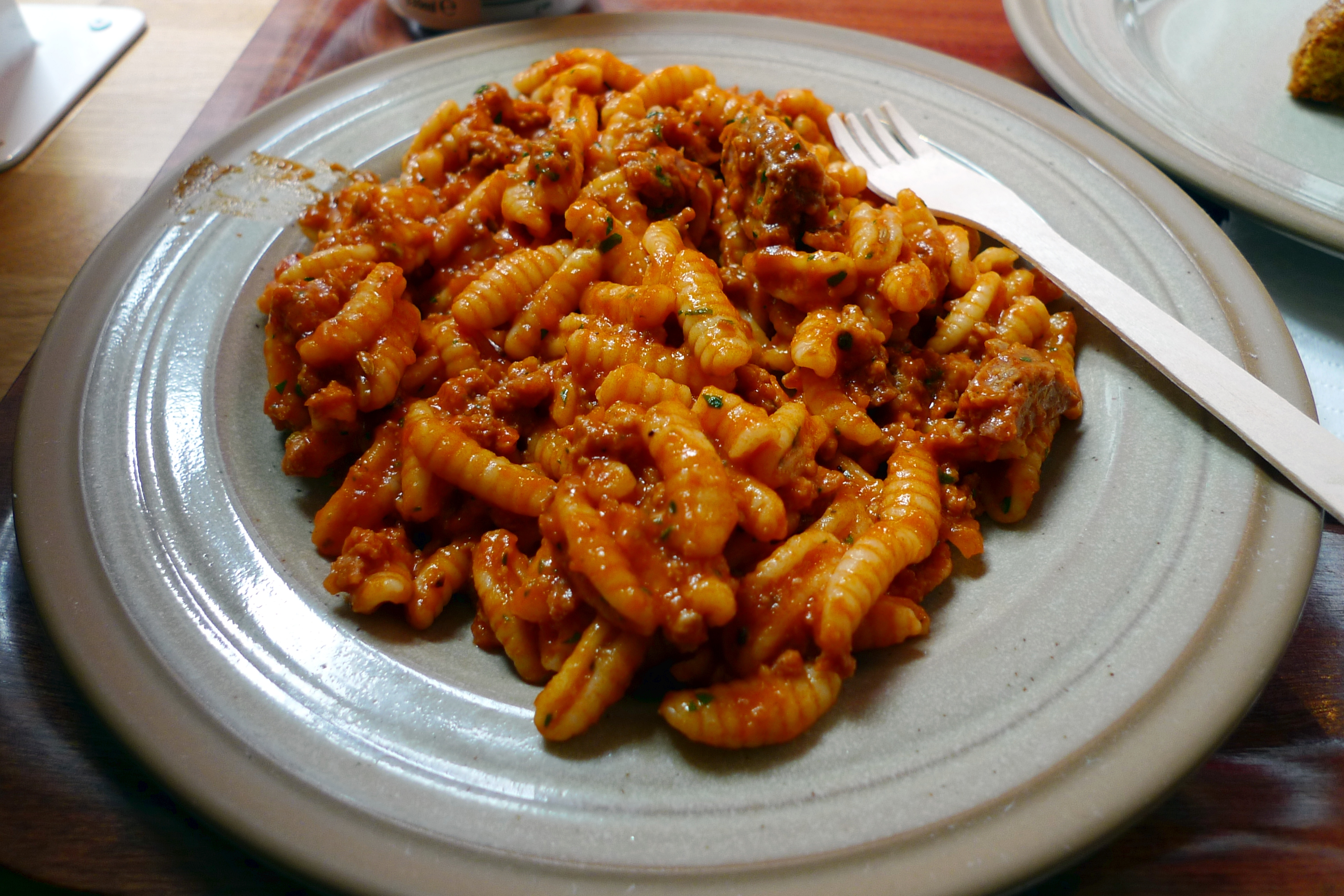 Malloreddus pasta, with sausage meat and a tasty sauce. At Sardo Cucina, Whitfield Street.